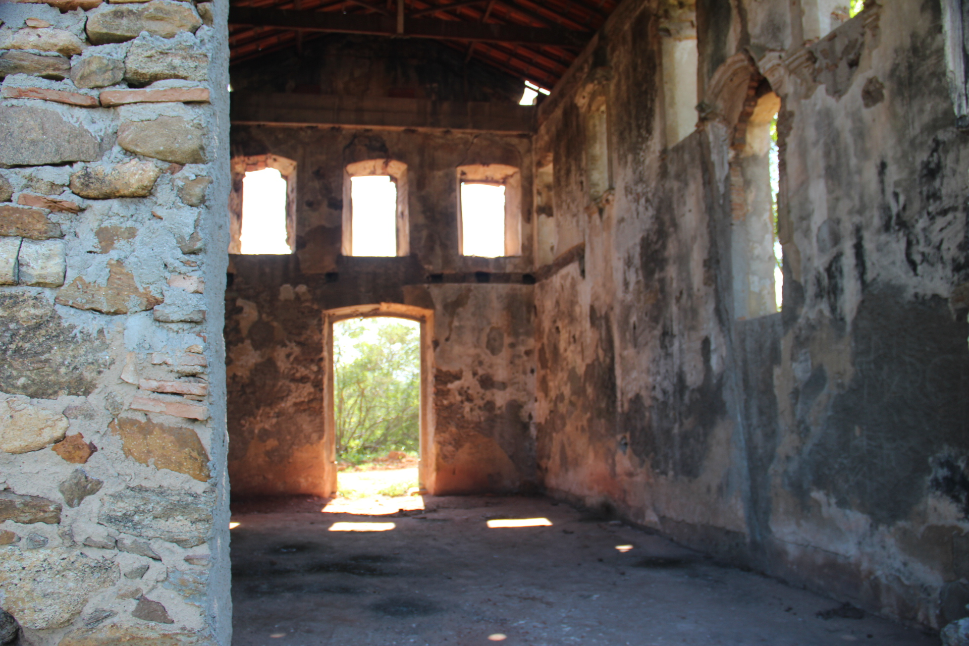 Interior da antiga Igreja Nossa Senhora de Bemém